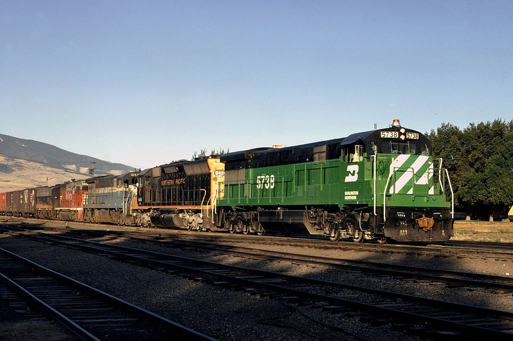 Burlington Northern #5738, a GE U33C locomotive in the railroad’s green and white paint scheme, departs Livingston, MT in August 1971. Trailing #5738 are locomotives with the paint schemes of three of the four railroads that merged to become Burlington Northern: Northern Pacific Railroad (black), Great Northern Railroad (blue), and Chicago, Burlington and Quincy Railroad (red).